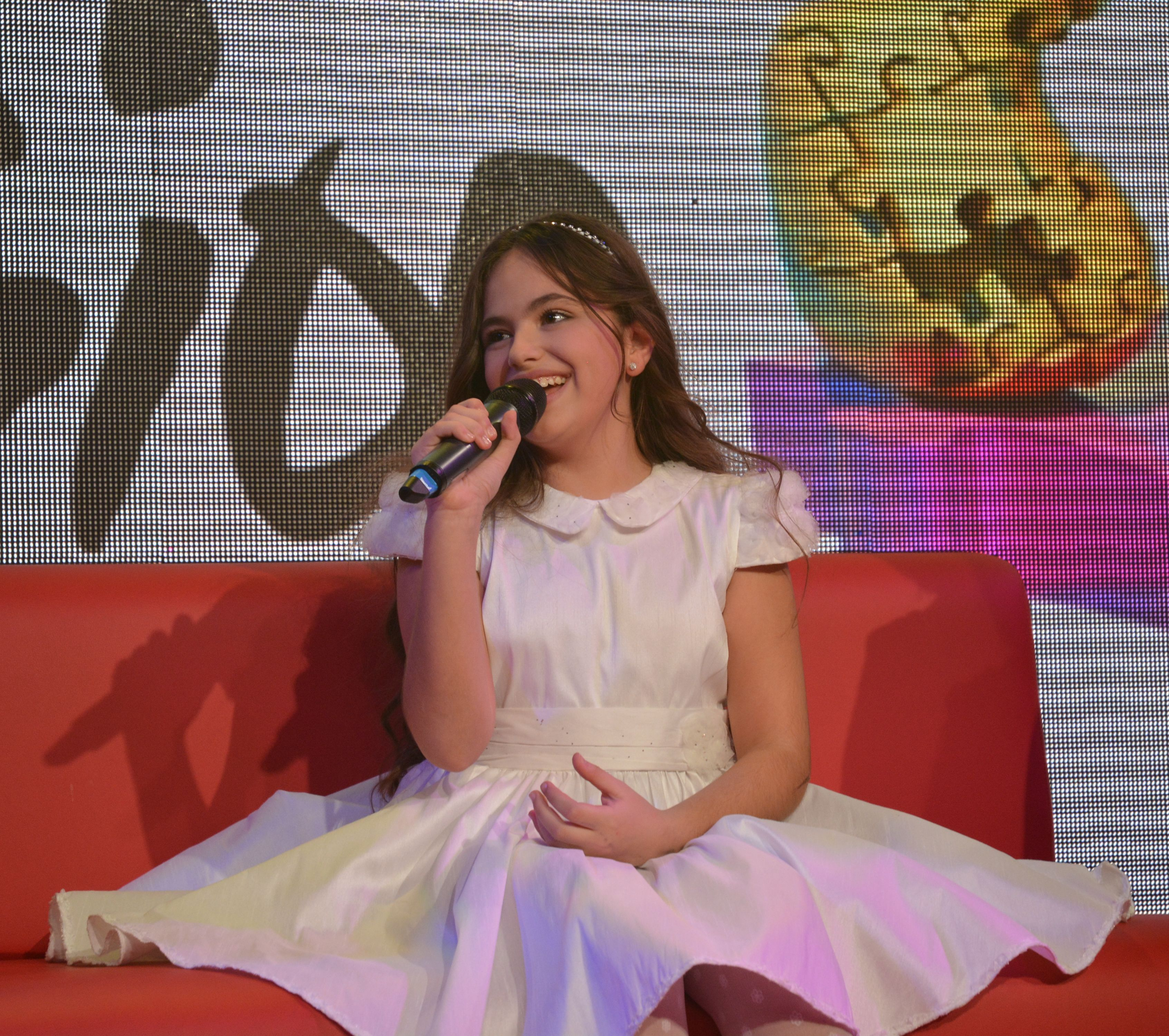 Gaia Cauchi at JESC 2013 winner press-conference